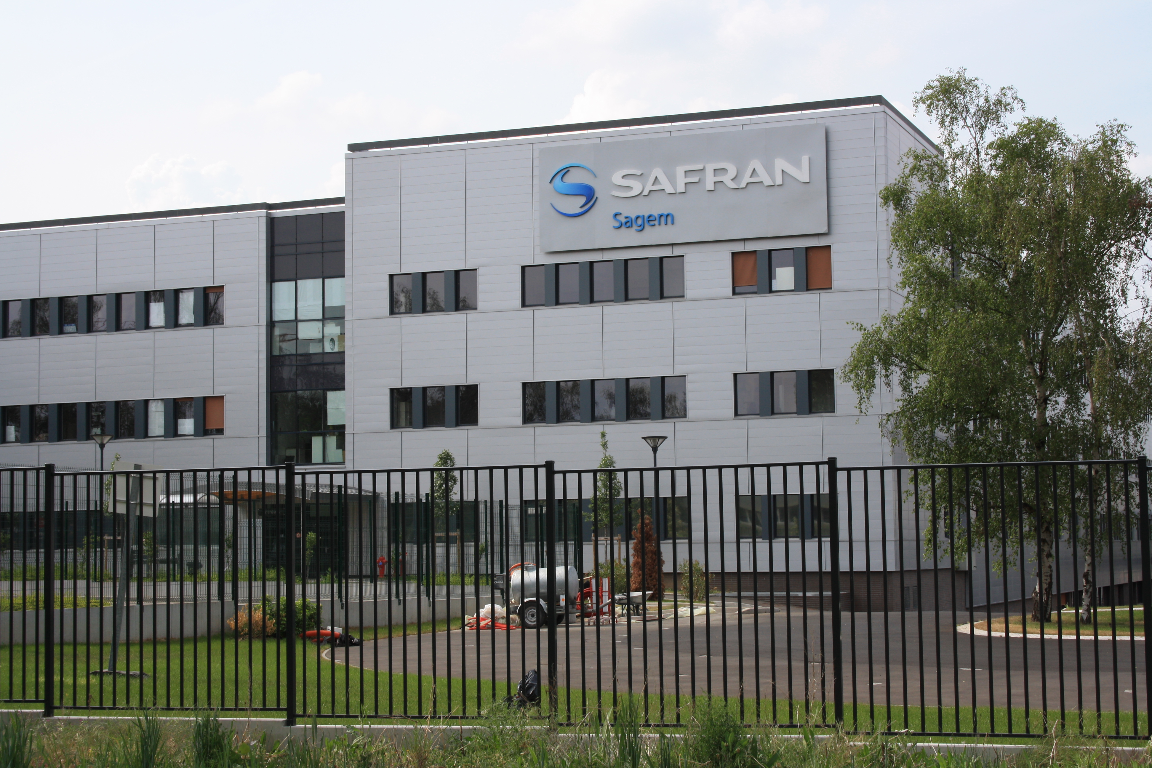 Massy, Essonne in France